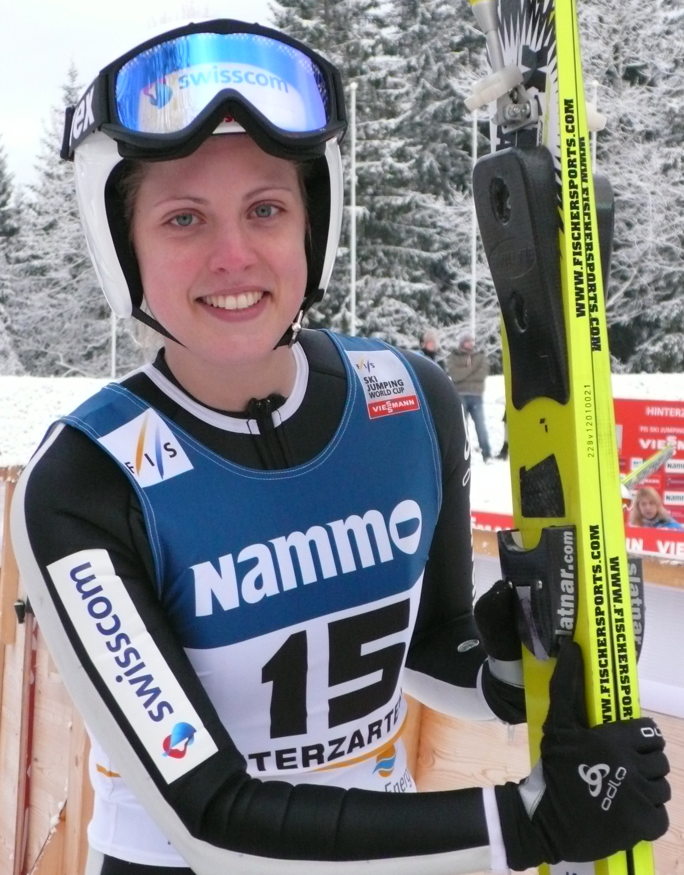 Bigna Windmueller